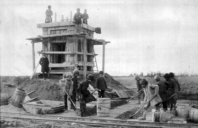 Construction of Baku-Shollar water pipe